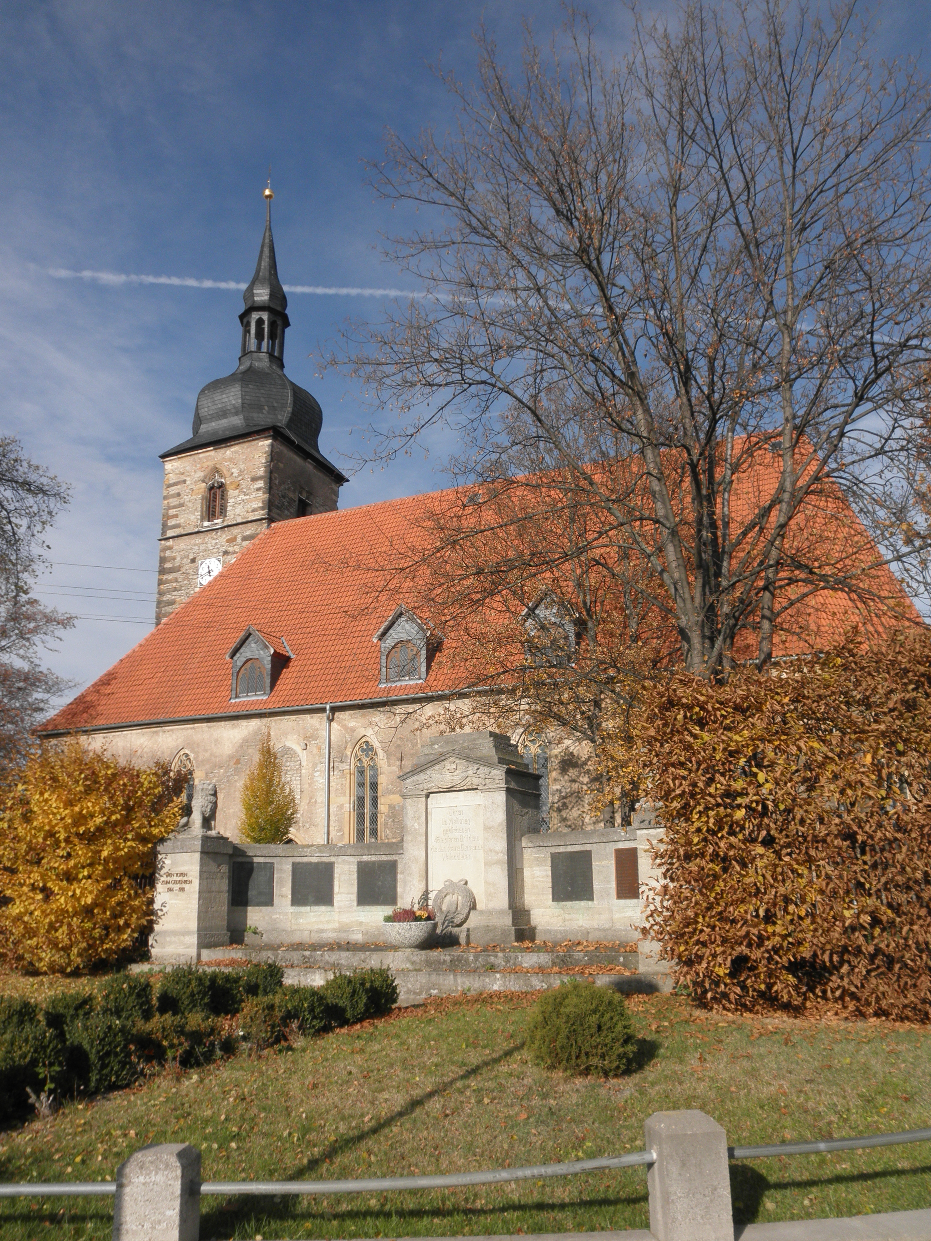 Church in Walschleben in Thuringia